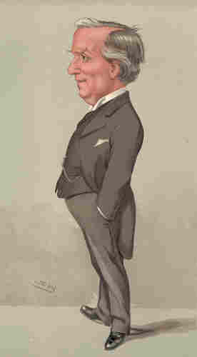 Caricature of Herbert Henry Asquith KC MP. Caption reads "Brains".